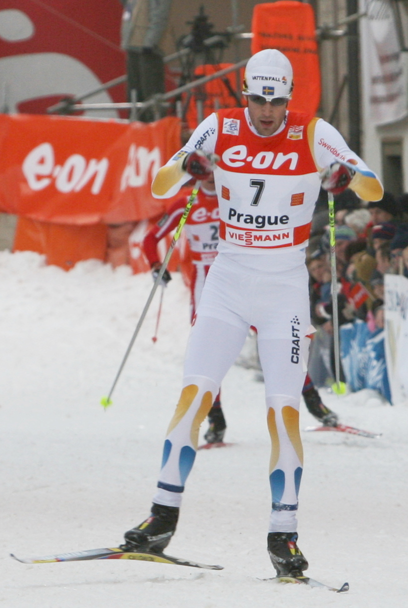 Mats Larsson in the quaterfinals of Tour de Ski in Prague